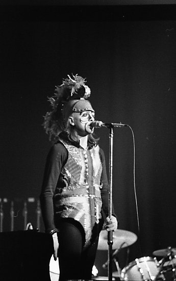 Peter Gabriel as "Britannia" performing Dancing With The Moonlit Knight with Genesis, Massey Hall, Toronto, Nov. 8th 1973